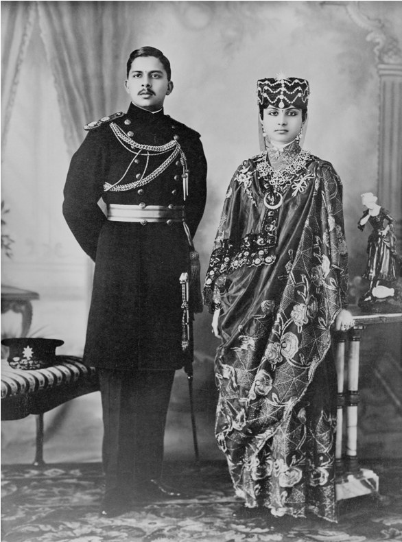 Bishnu Shamsher JBR (1906-1946), son of Sri 3 Chandra Shamsher JBR and Rani Urmila